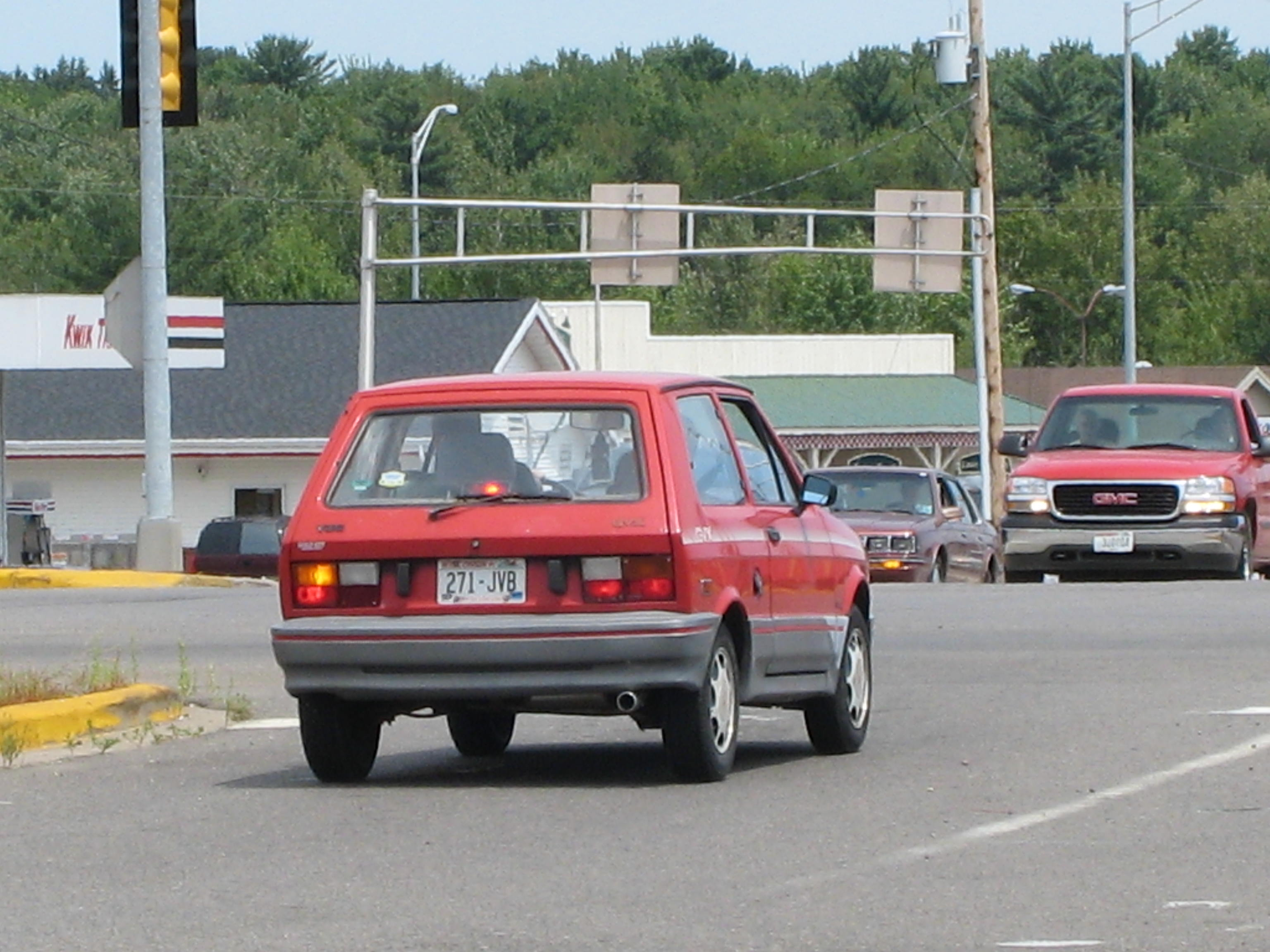 Red Yugo GVX.